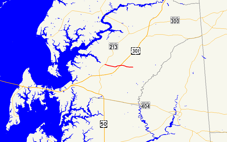 Map of Maryland Route 305